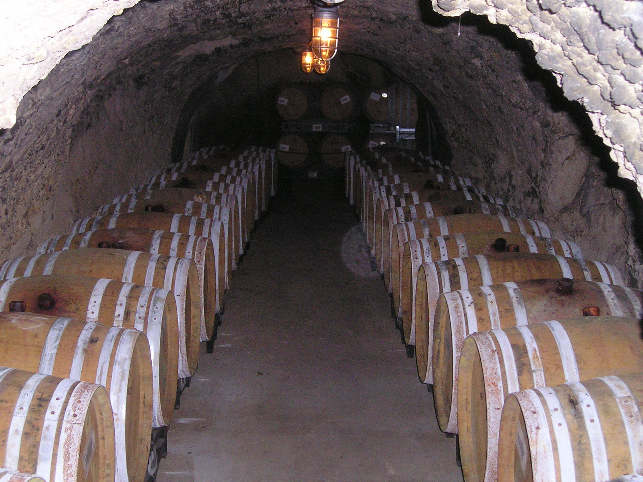 An underground wine cellar, California